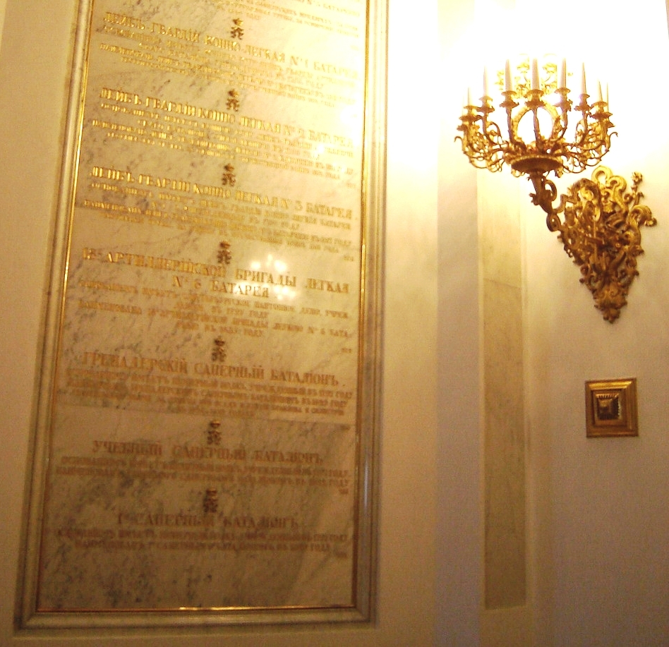 List of troops that were awarded the St. George order. St. George hall in the Grand Kremlin Palace, Moscow, Russia